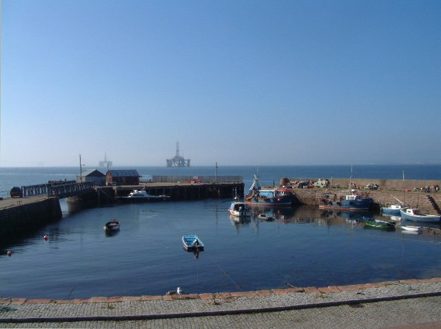 Cromarty HarbourNorsk bokmål: Havna i Cromarty